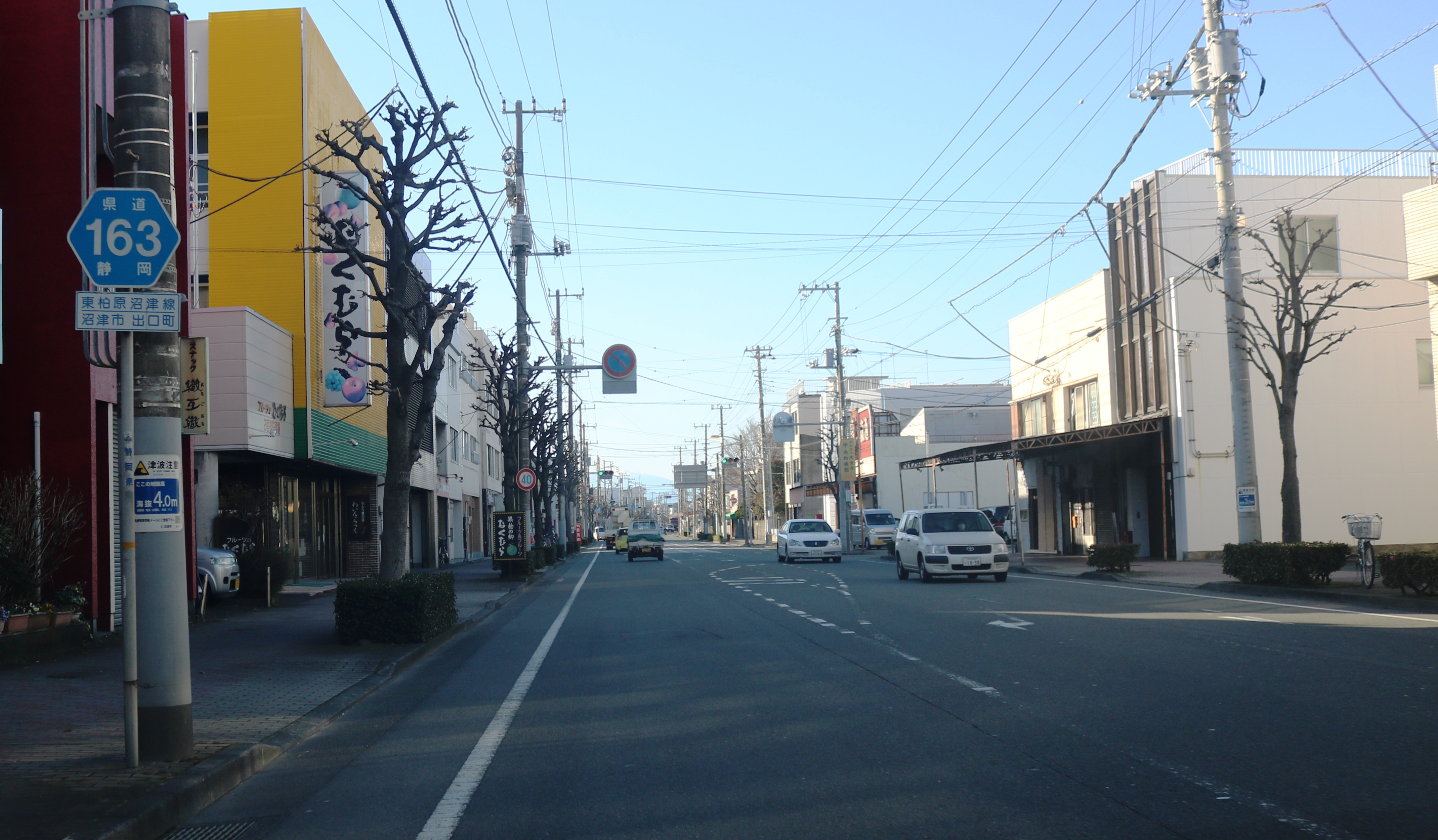 Shizuoka Prefectural Road Route 163 in Deguchicho, Numazu, Shizuoka Prefecture, Japan.